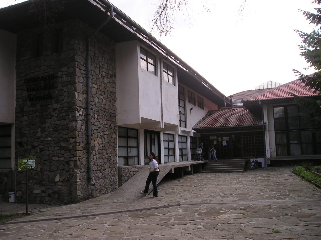 Museum of Natural History in Cherni Osum, Bulgaria